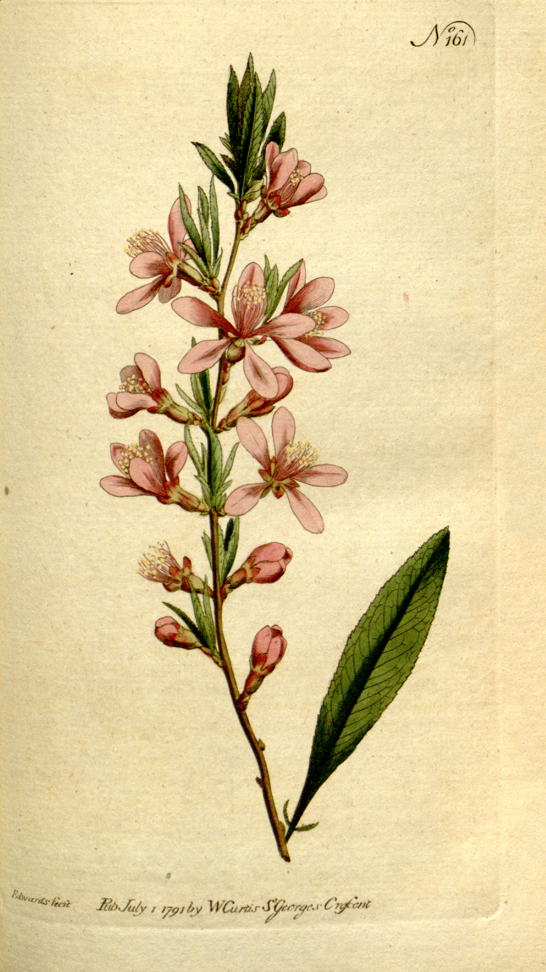 This is a plate from The Botanical Magazine, Volume 5.